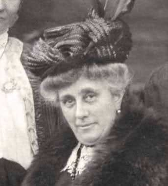 Photograph of the Italian philanthropist and feminist Countess Gabriella Rasponi Spalletti (1853-1931)